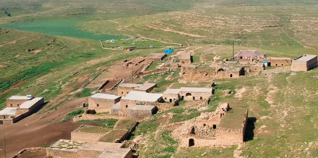 Yazidi village Bacin in Turkey